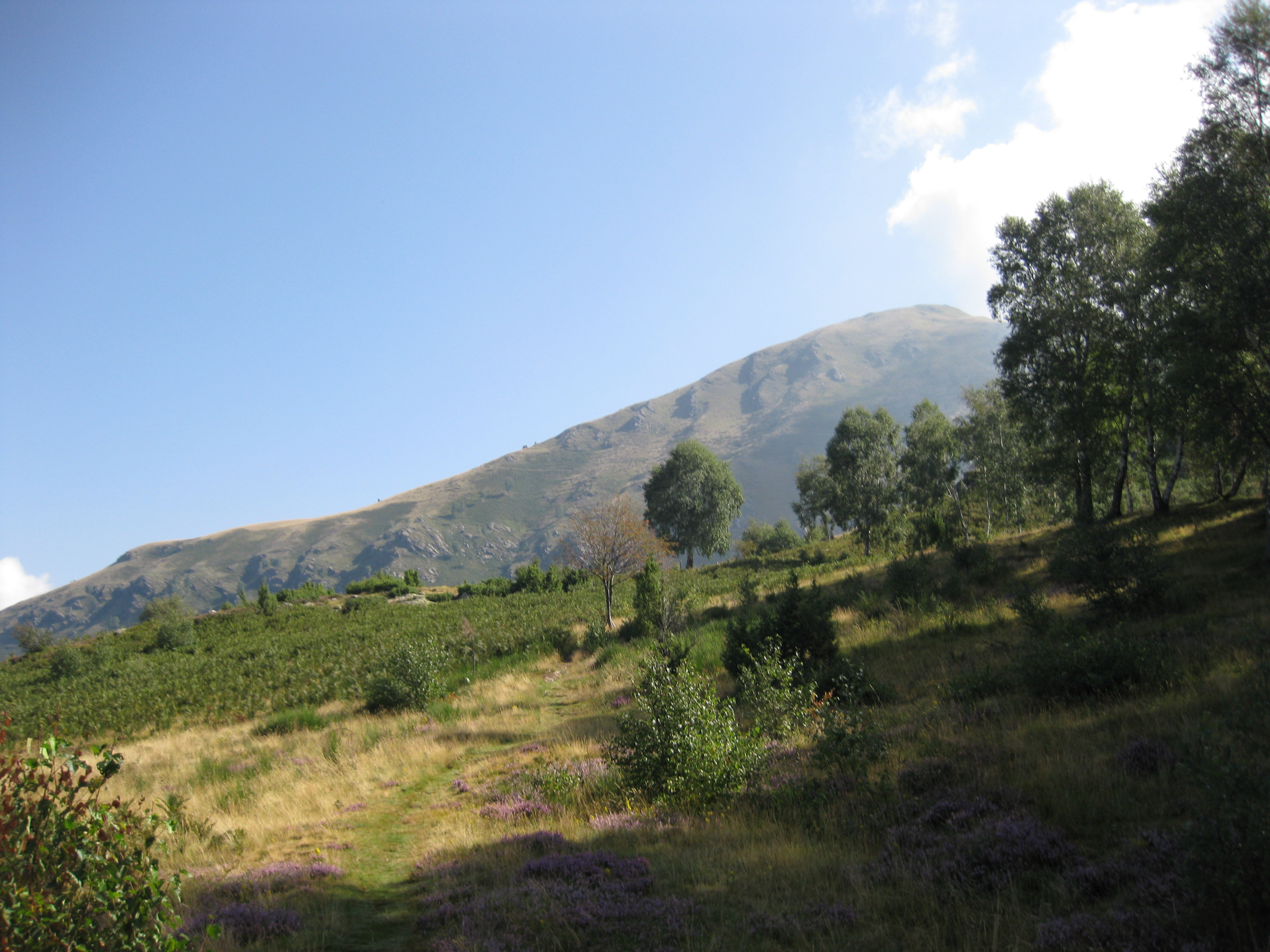 Monte Berlinghera (1930 m), mountain near the lake como close to the city of Gera Lario in Italy. View from the path between San Bartolomeo and Bocchetta Chiaro.